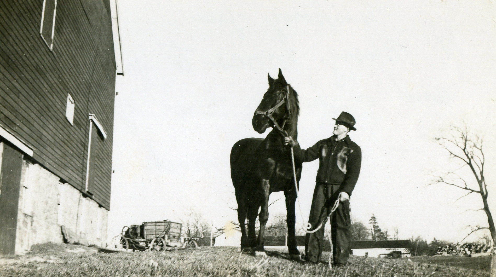 Historical photographs of Beamsville Ontario 1917-1950 including Peckham Orchards, and related family, personal papers and School information.